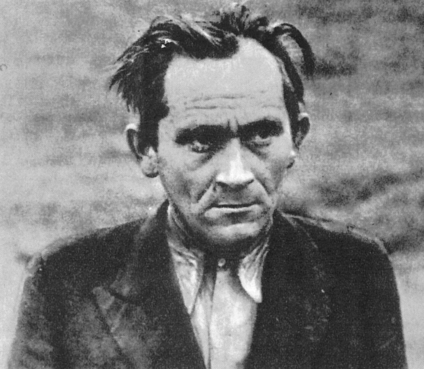 Medard Męczykowski - Polish teacher from Bydgoszcz. Photo taken before the execution in the "Valley of Death" near the Bydgoszcz. Autumn 1939.